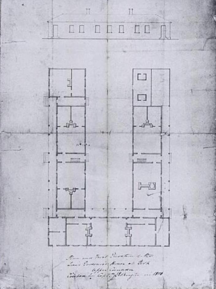 Plan and elevation of the first residence for the Lieutenant Governor ("Government House") built in Upper Canada (the current province of Ontario). The residence was erected in 1799-1800 by Captain Robert Pilkington at Fort York, and was first occupied by the colony's second Lieutenant Governor, Peter Hunter. The structure was destroyed when a nearby powder magazine exploded in 1813 during the War of 1812. Rooms are not identified on the plan, and only the kitchen and the bake oven (right side) can be identified with any certainty.